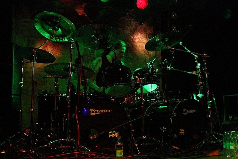 Black River, Lublin, Graffiti, 10.12.2008